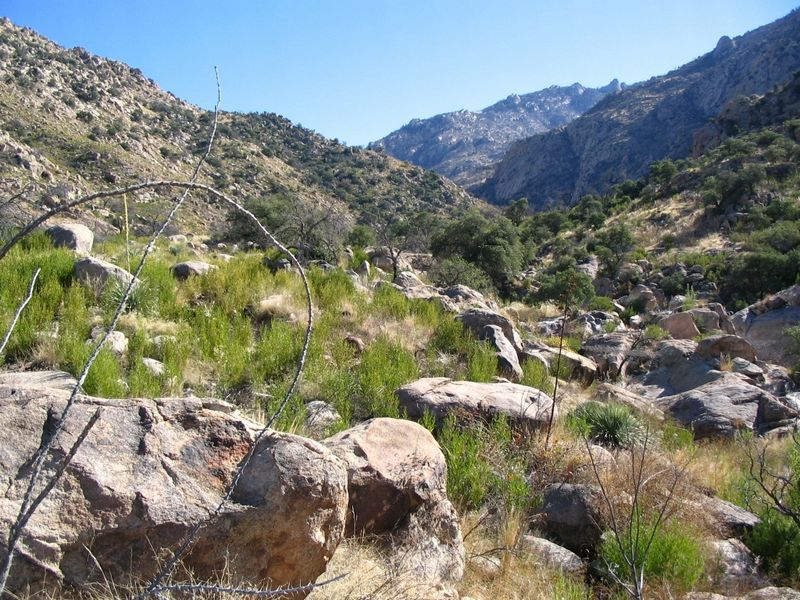 Looking up Romero Canyon — in Pusch Ridge Wilderness, the Santa Catalina Mountains, Catalina State Park.